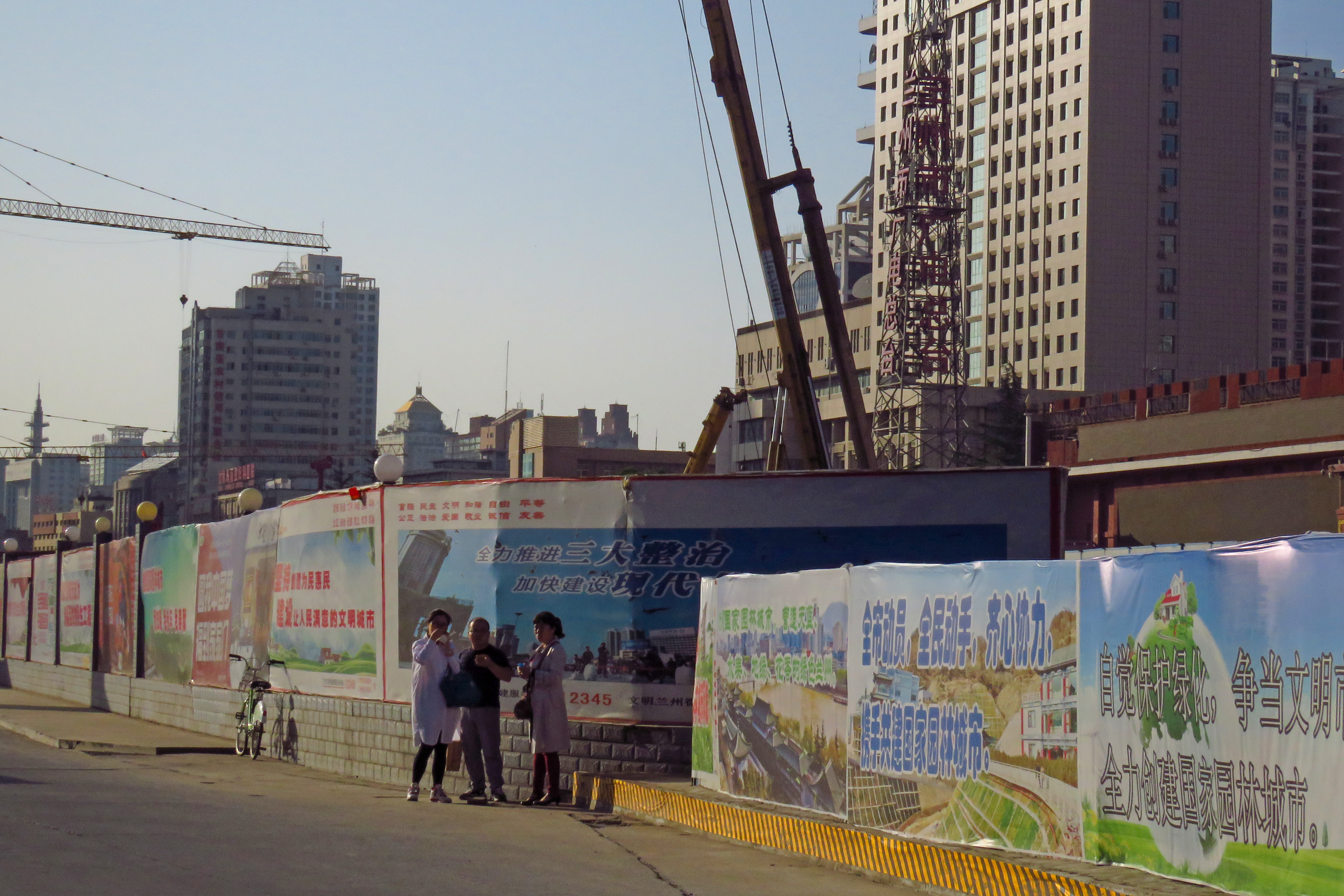 Didn't actually see the square - just the metro station construction.